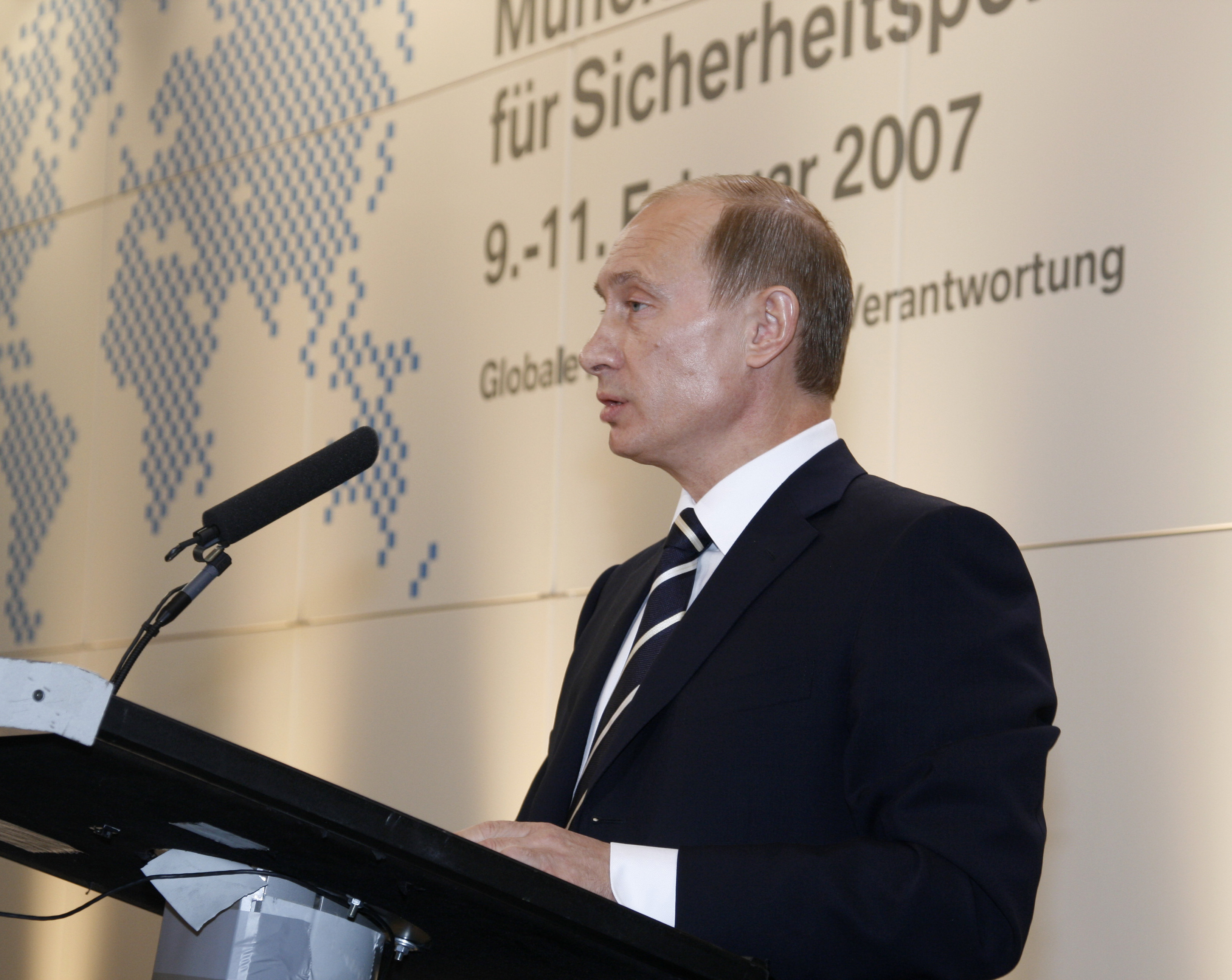 43rd Munich Security Conference 2007: The president of the Russian Federation Vladimir V. Putin during his speech.